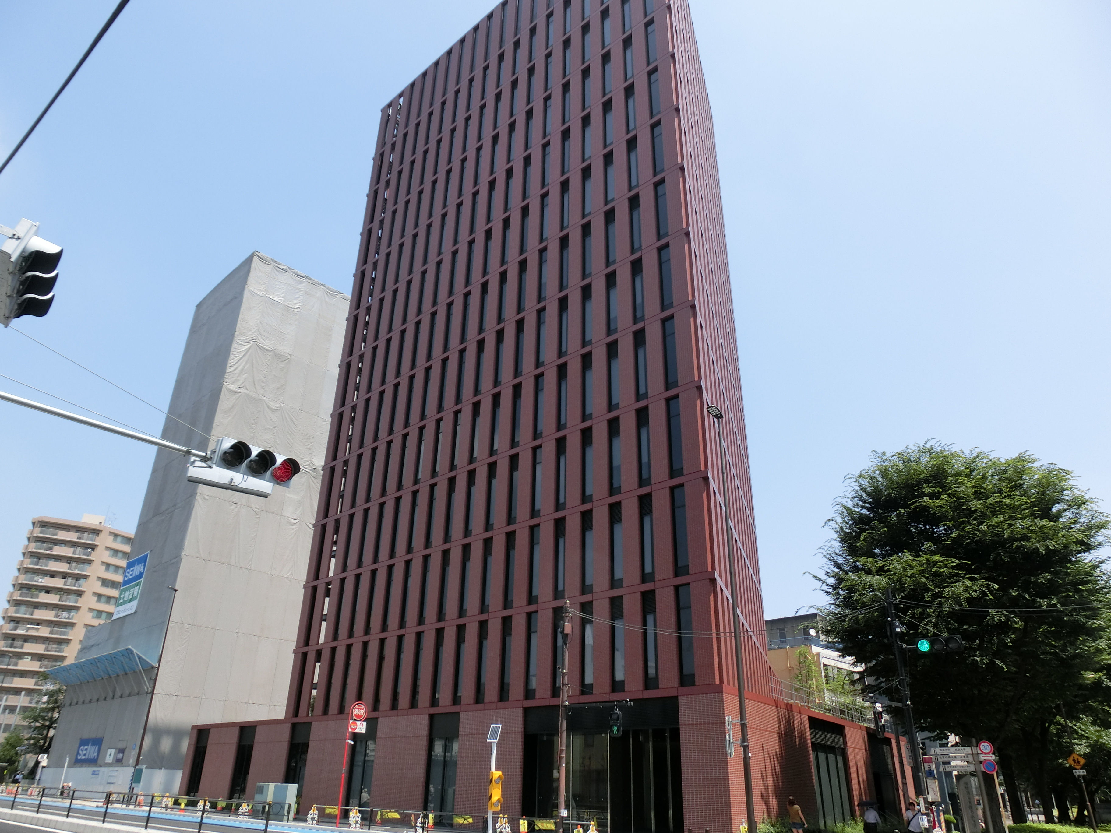 TRC Head Office